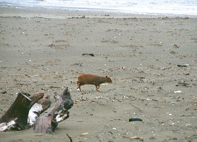 A rare sighting of a wild Pudu microdeer at the mouth of the Rio Zorro, southwest Chiloe Island. In context at